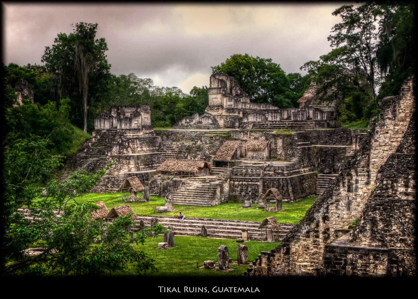 The Tikal Maya ruins in Guatemala are the most famous Maya ruins, well worth seeing. They are nestled in the jungle, so they are very wet and surrounded by amazing vegetation, and did I mention it, lots of mosquitoes. Nicer large. This is my 100th Explore photo. Thanks to all my friends who visit my photostream.